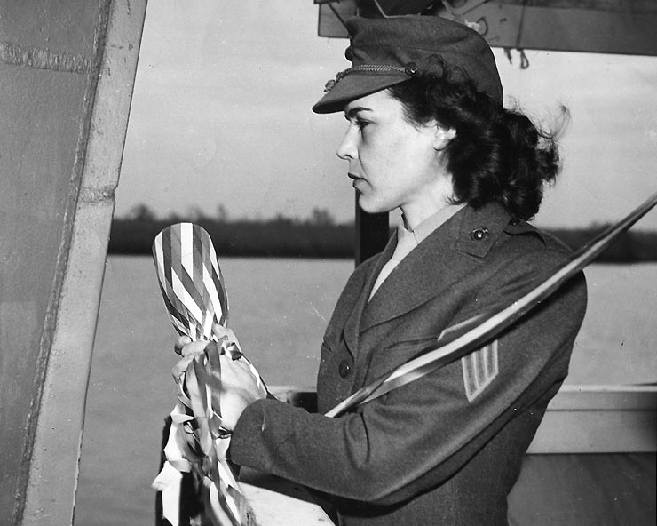 Sergeant Lena Mae Basilone, USMC(WR), ship's sponsor, prepares to christen the destroyer USS Basilone (DD-824) at the Consolidated Steel Corporation shipyard, Orange, Texas (USA), on 21 December 1945. She was the widow of Gunnery Sergeant John J. Basilone, USMC, in whose honour the ship was named.